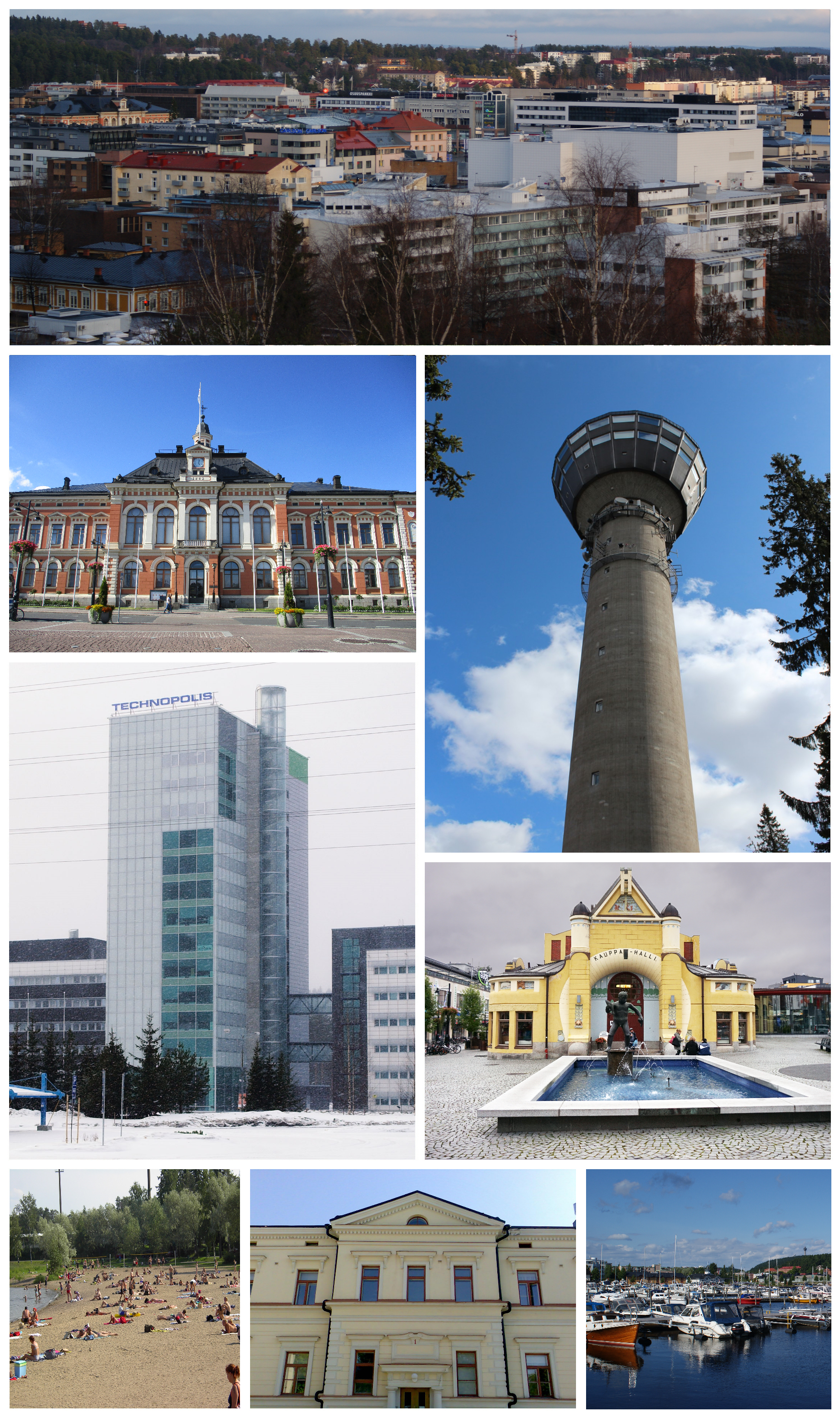 A montage of the city of Kuopio, Finland. Includes pictures (clockwise from top-left) of the cityscape of the center, the Puijo Tower, the Kuopio Market Hall, the Kuopio Marina, the Govenor Palace, the Väinölänniemi Beach, the Technopolis Microtower (part of the Technology Centre Teknia), and the Kuopio City Hall.